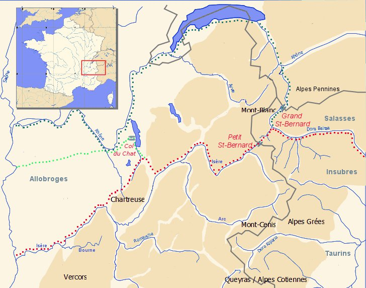 Hypothesis for Hannibal's way in 218BC : Rhone + Grand-Saint-Bernard pass or Isère + Petit-Saint-Bernard pass